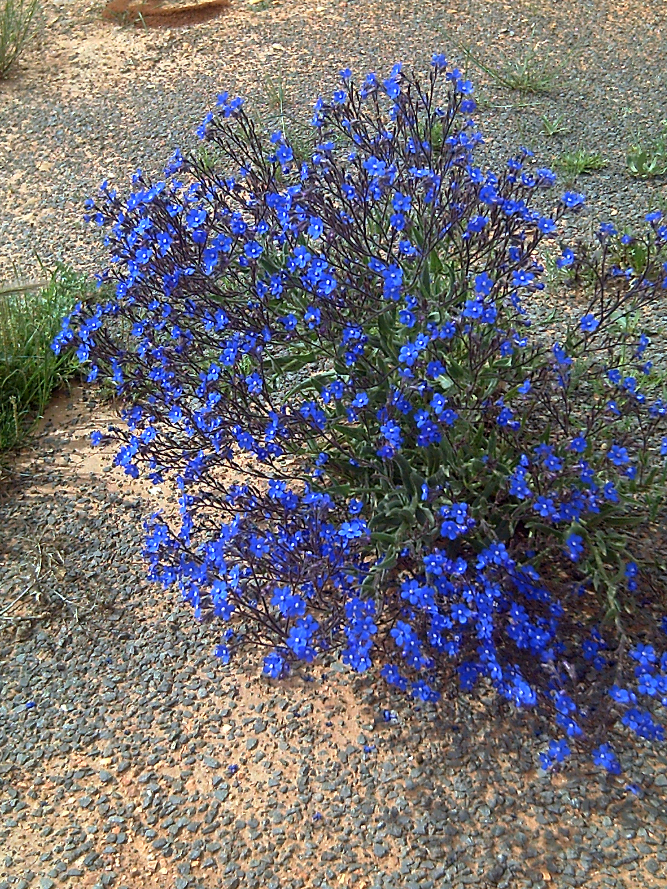 Anchusa azurea habitus, Campo de Calatrava, Spain